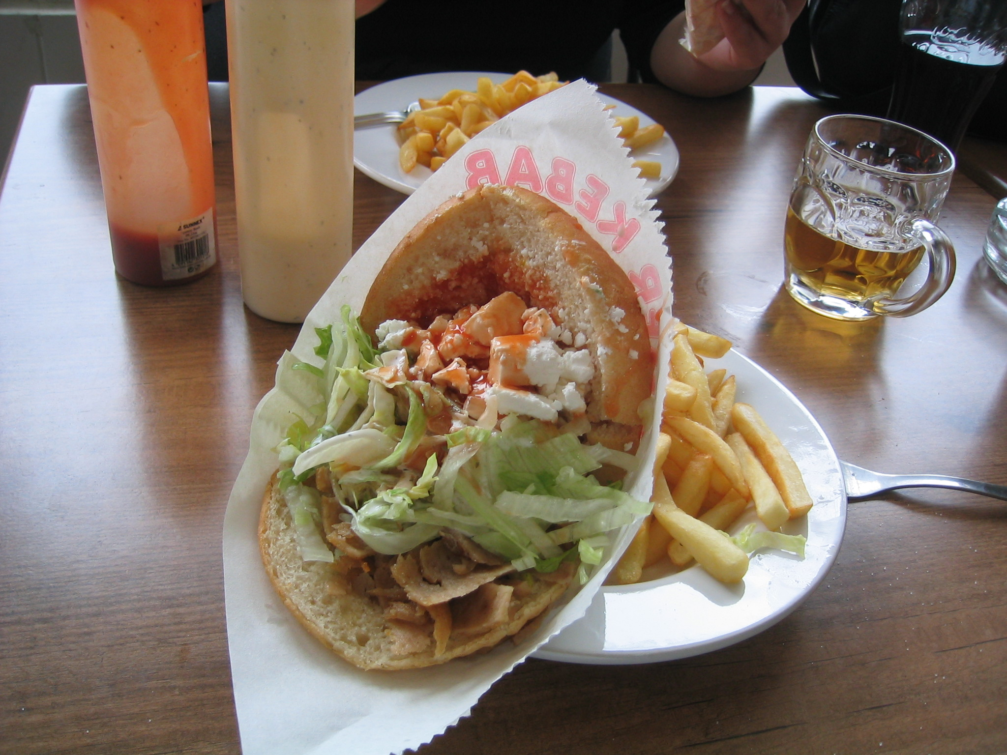 Doner kebab with cheese and french fries in Madrid, Spain